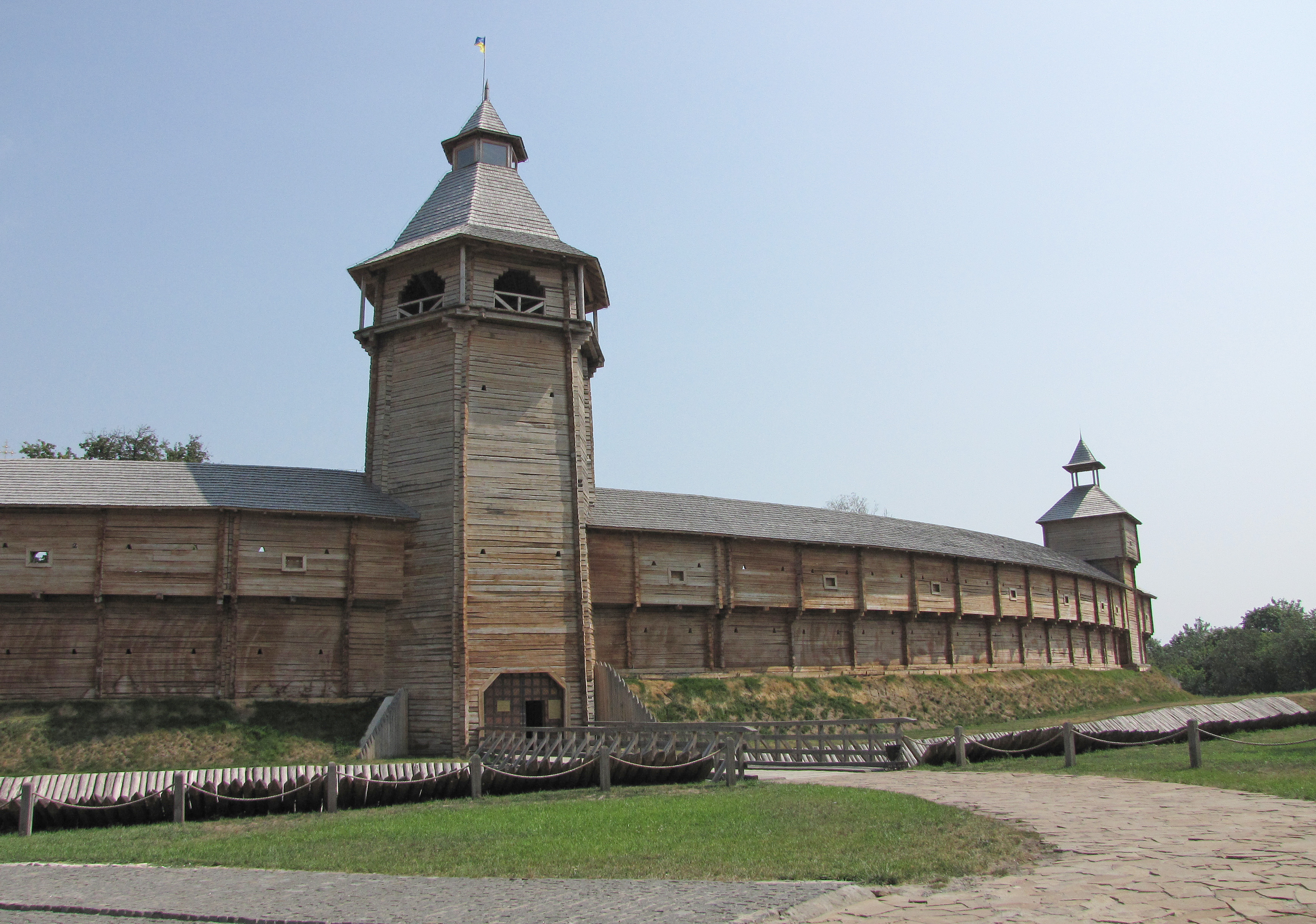 The reconstructed citadel of the Baturyn Fortress, Ukraine.